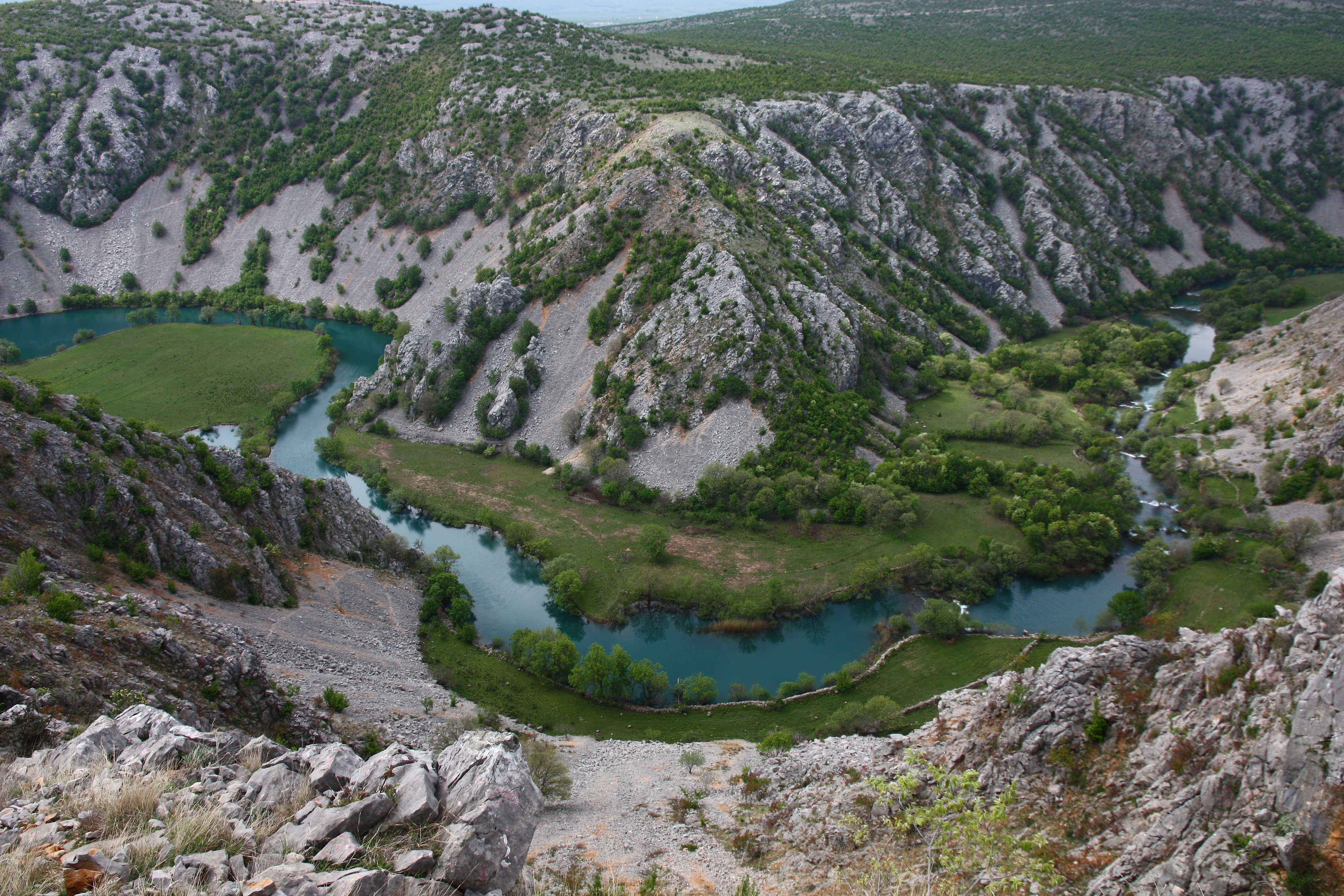 Krupa river in Velebit nature park This is a a photo of a natural area in Croatia with ID: PP09